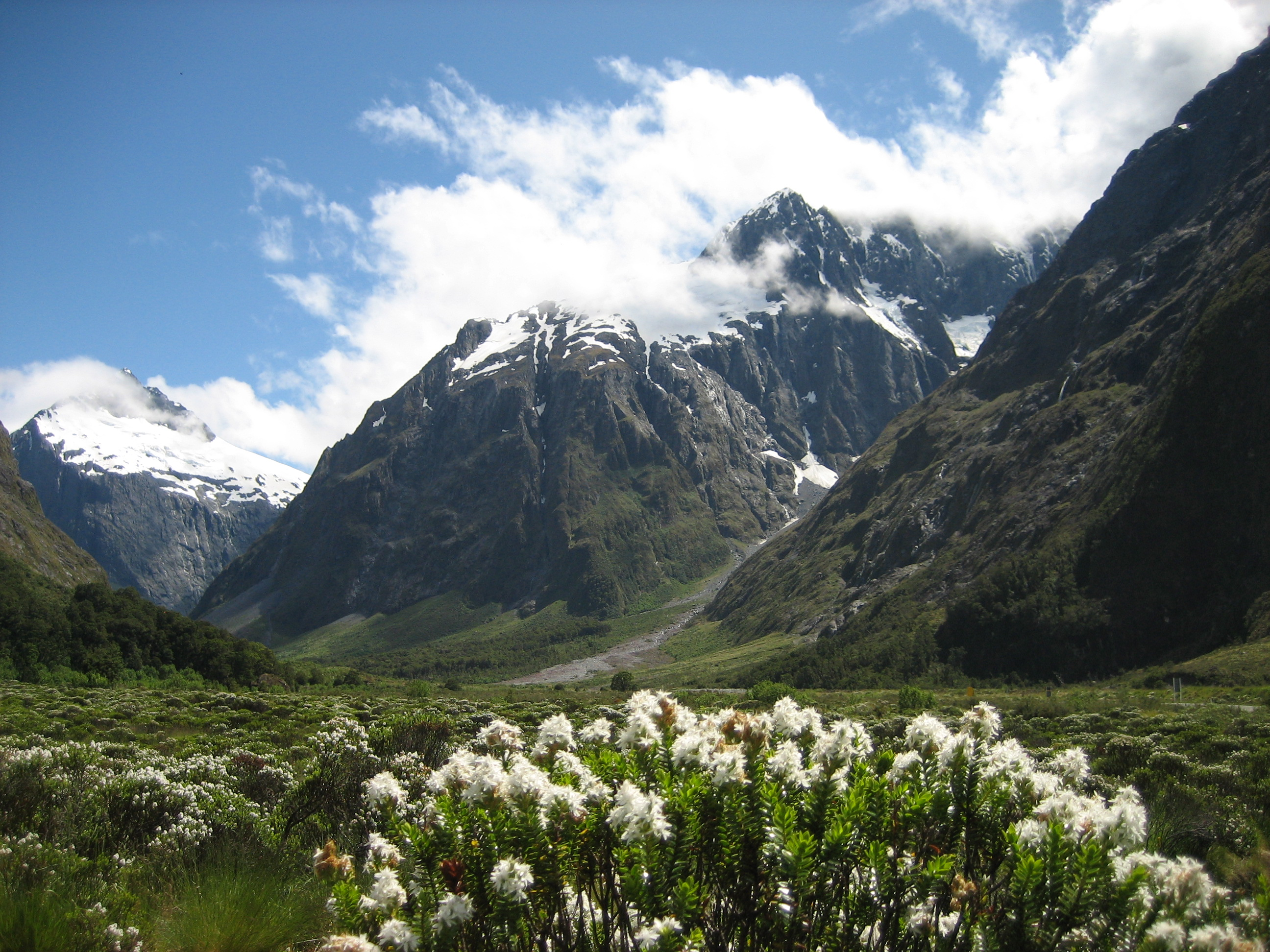 Fiordland National Park, New Zealand. What appears to be a species of Hebe is in the foreground.